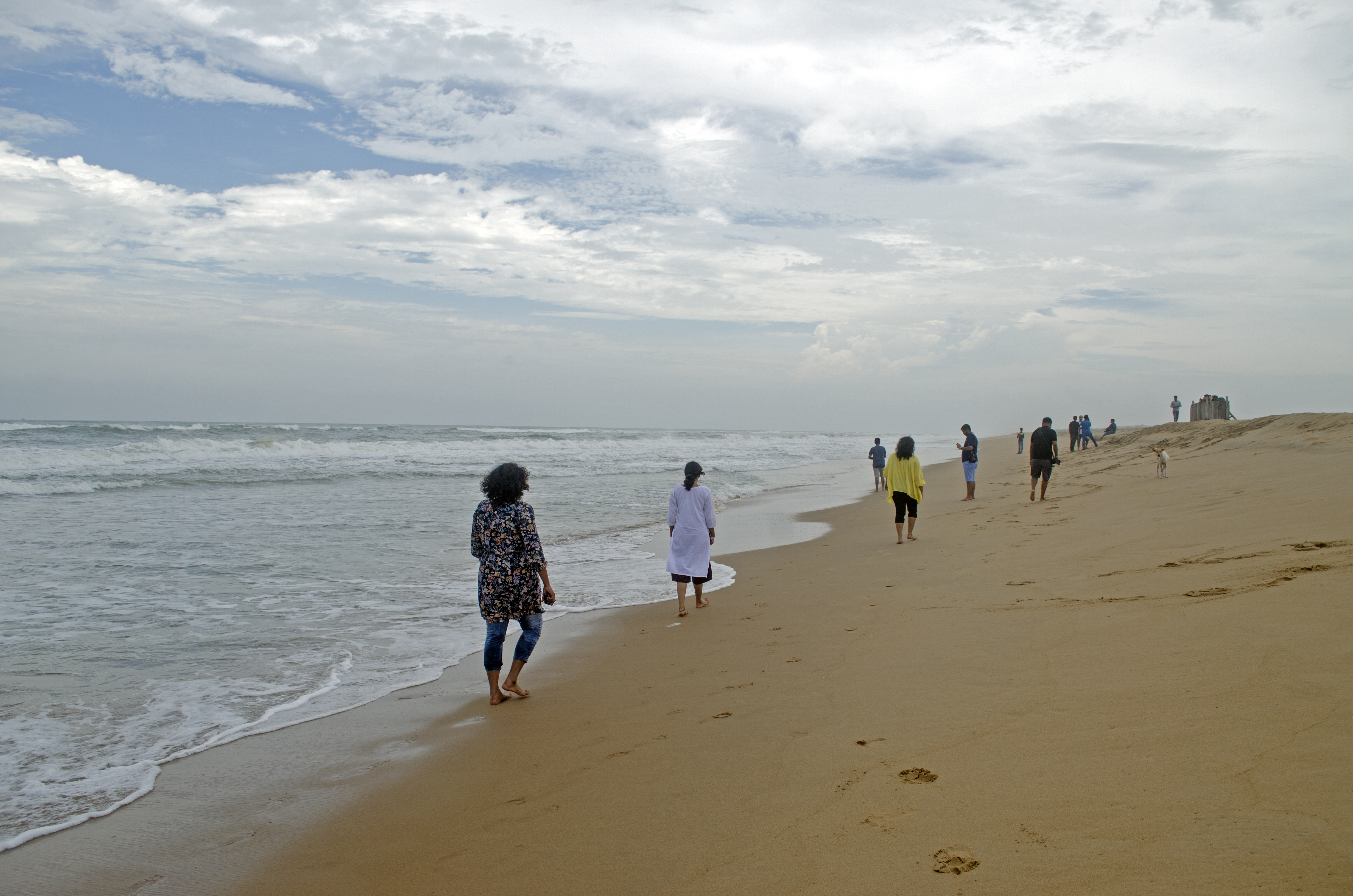 Near the Chilika Lake sea mouth, Odisha